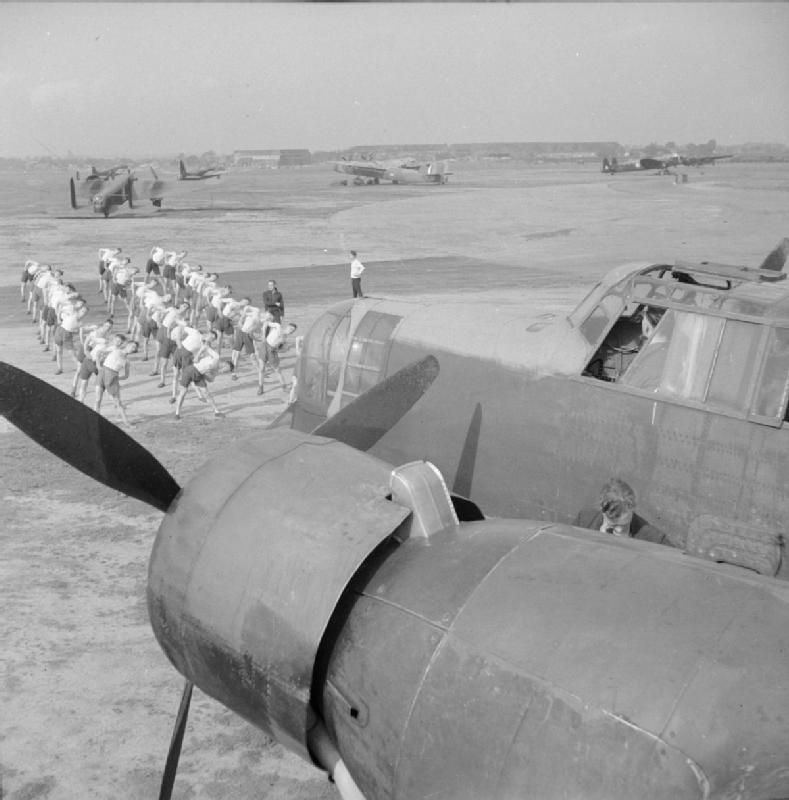 Paratroopers from the 6th Royal Welch Parachute Battalion undergoing physical training at Ringway, UK. In the foreground a Whitley III is serviced.